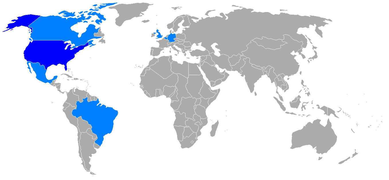 Foreign trips of Harry Truman during his presidency.